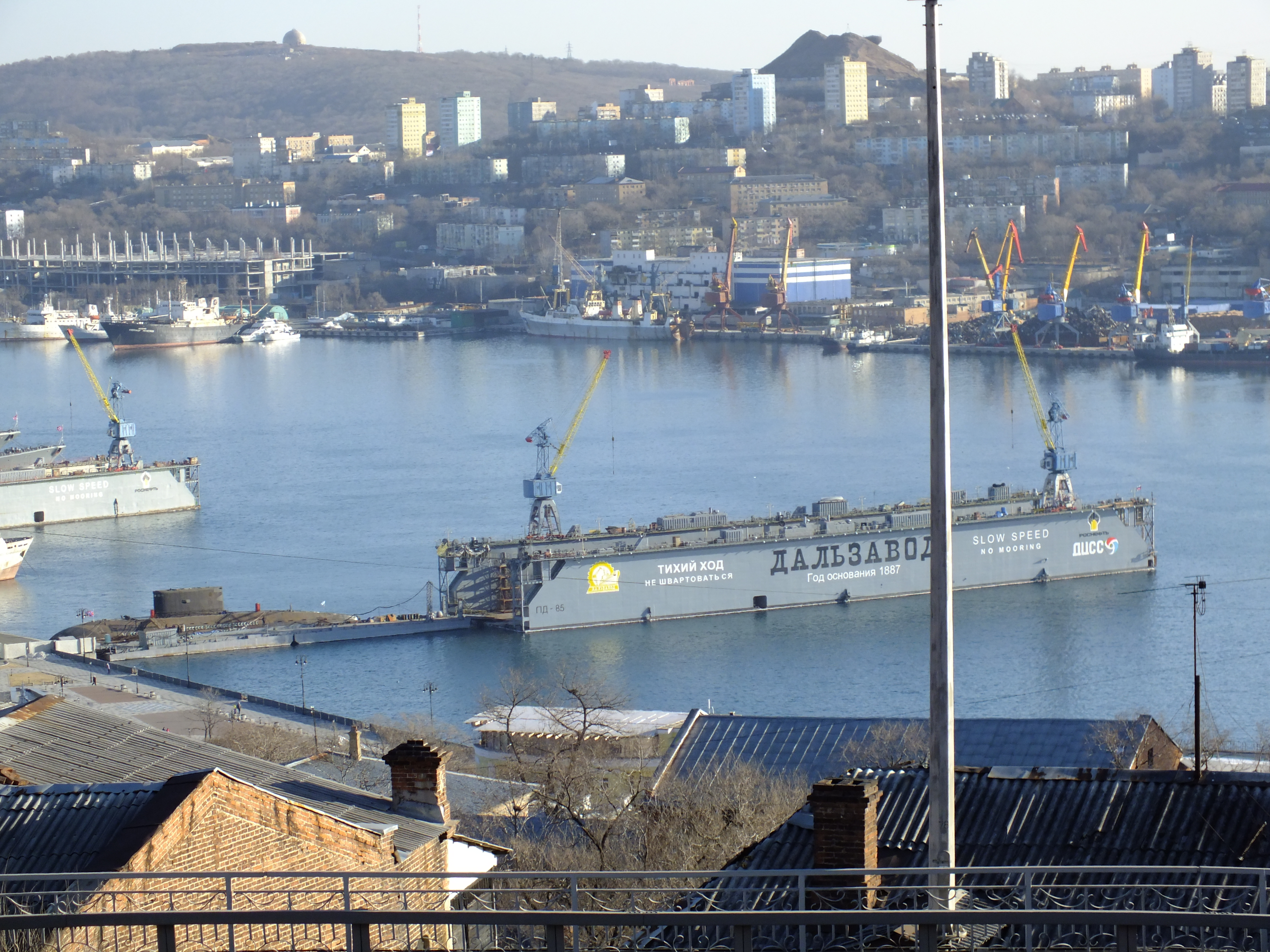 Pacific fleet of Russia